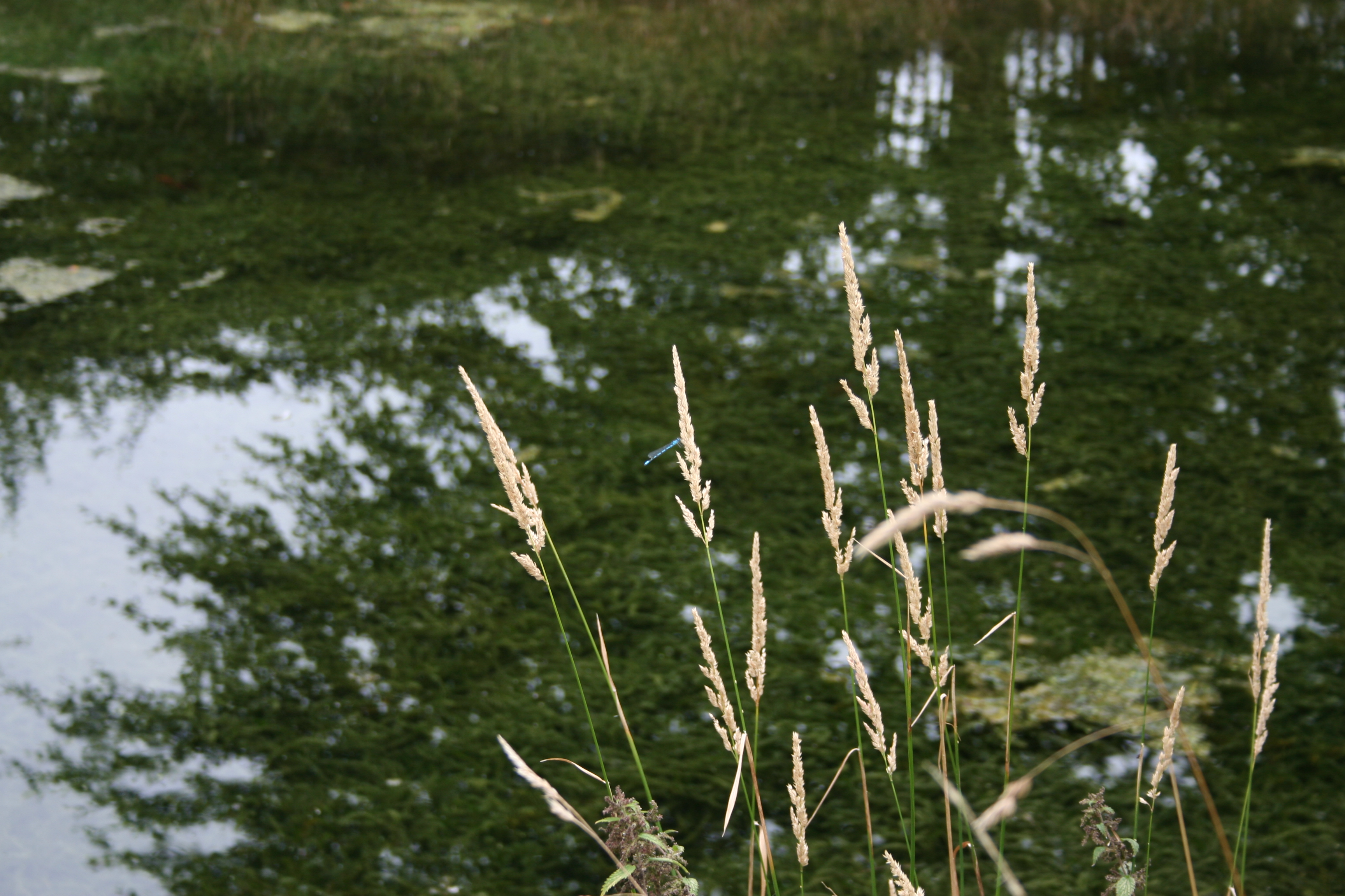 Taken by the fish pond at Valle Crucis Abbey, UK